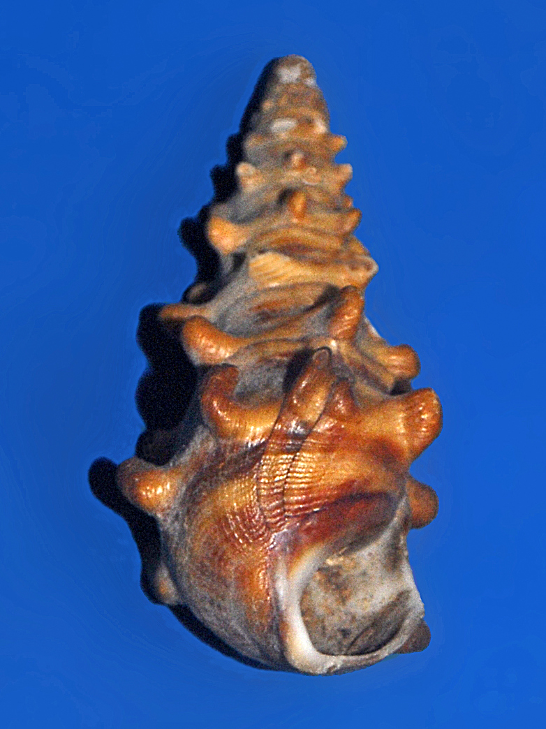 A shell of Pachymelania aurita from Democratic Republic of the Congo on display at the Museo Civico di Storia Naturale di Milano